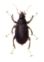 Oodes helopioides, from Calwer's Käferbuch, Table 6, Picture 14. Taxonomy was updated to 2008, using mostly the sites Fauna Europaea and BioLib. Please contact Sarefo if the determination is wrong!